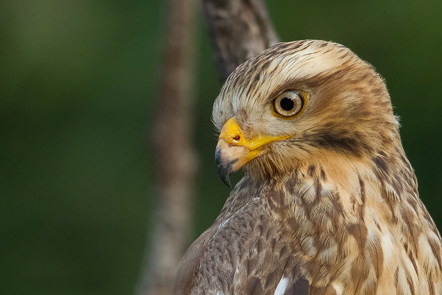 The species White-eyed-Buzzard had been photographed at Tadoba-Andhari Tiger Reserve at Maharashtra, India on 30th December 2012 during the tiger photography tour organised by GoingWild.